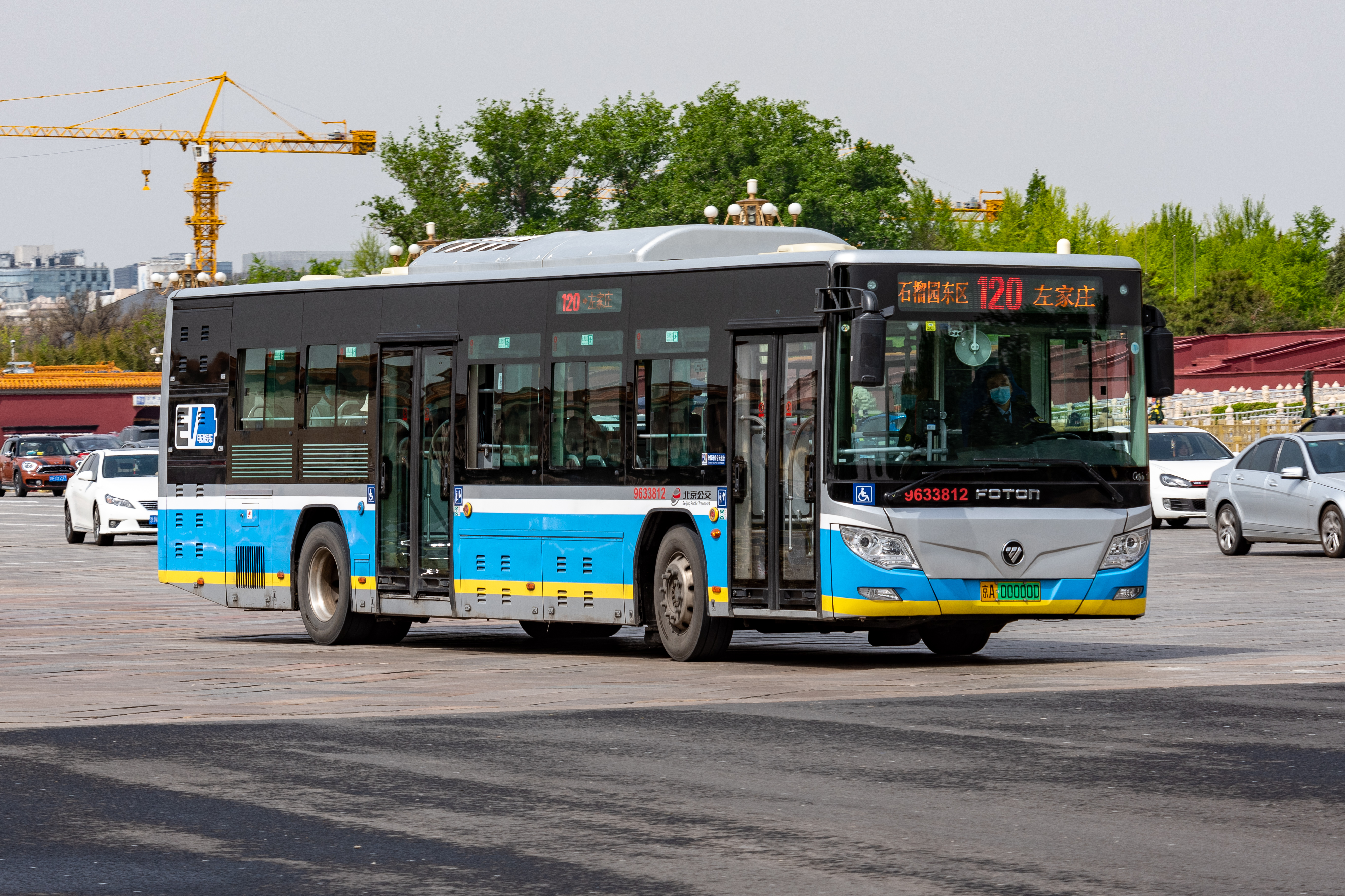 A bunch of zero - the enforcer is here!